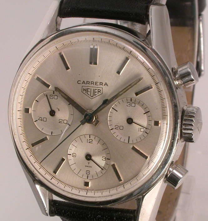 Heuer Carrera Chronograph, Circa 1964, Model Reference 2447S